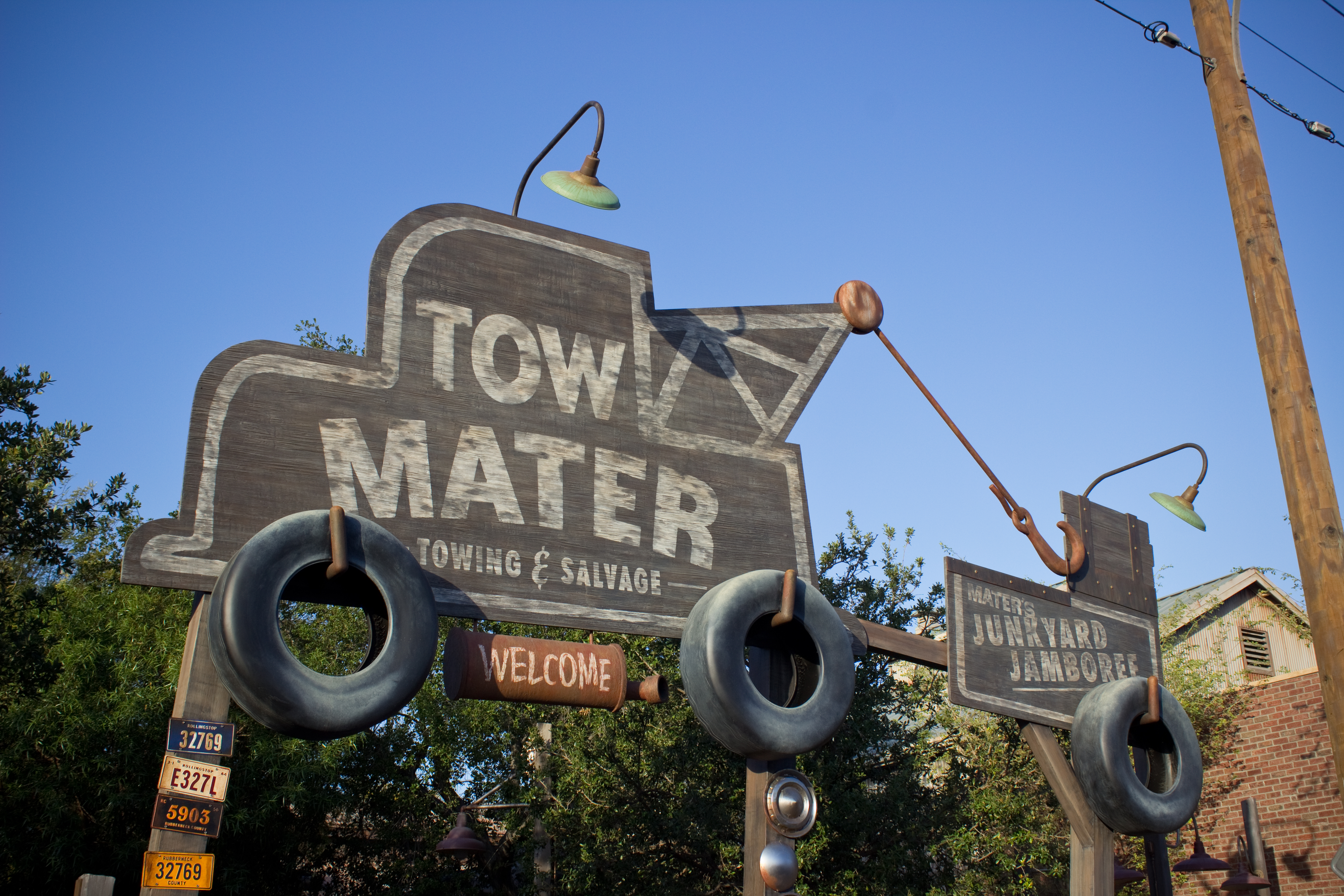 The sign outside Mater's Junkyard Jamboree in Cars Land at Disney California Adventure.